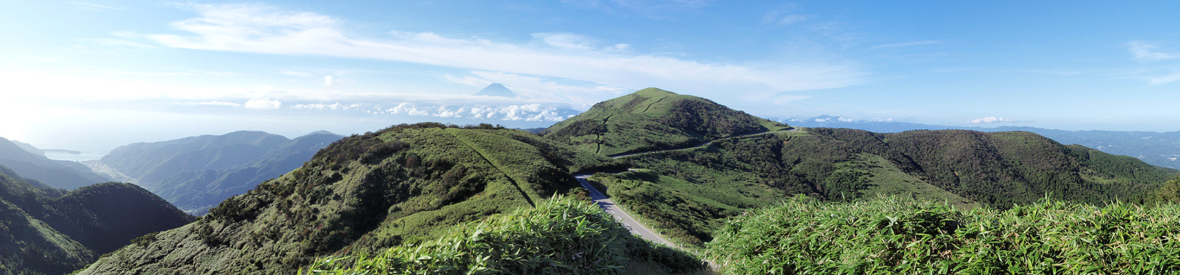 Mount Daruma as seen from the south in Shizuoka Prefecture, Japan.